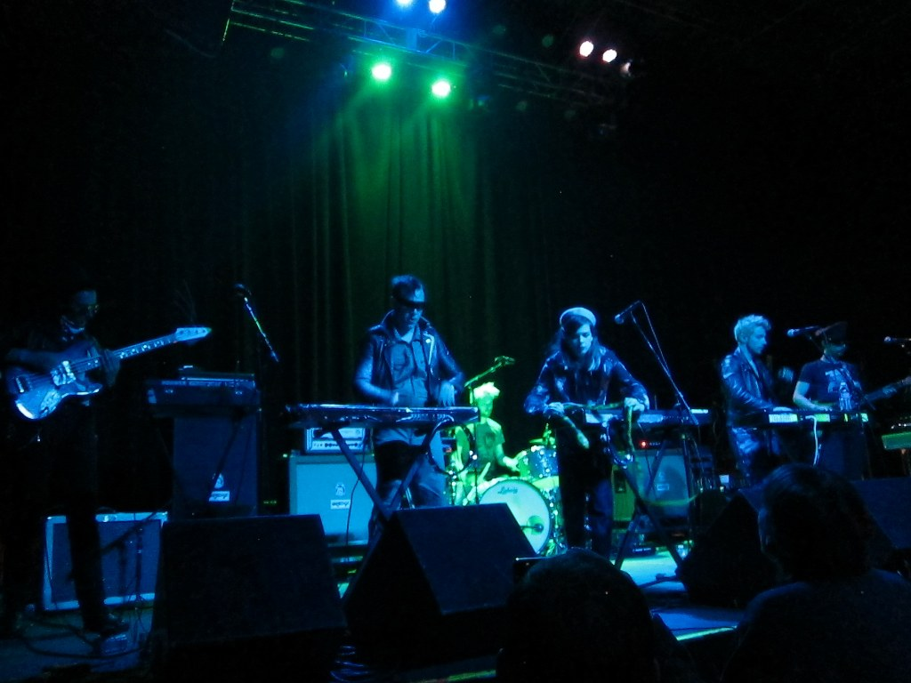 La Femme performing in 2014